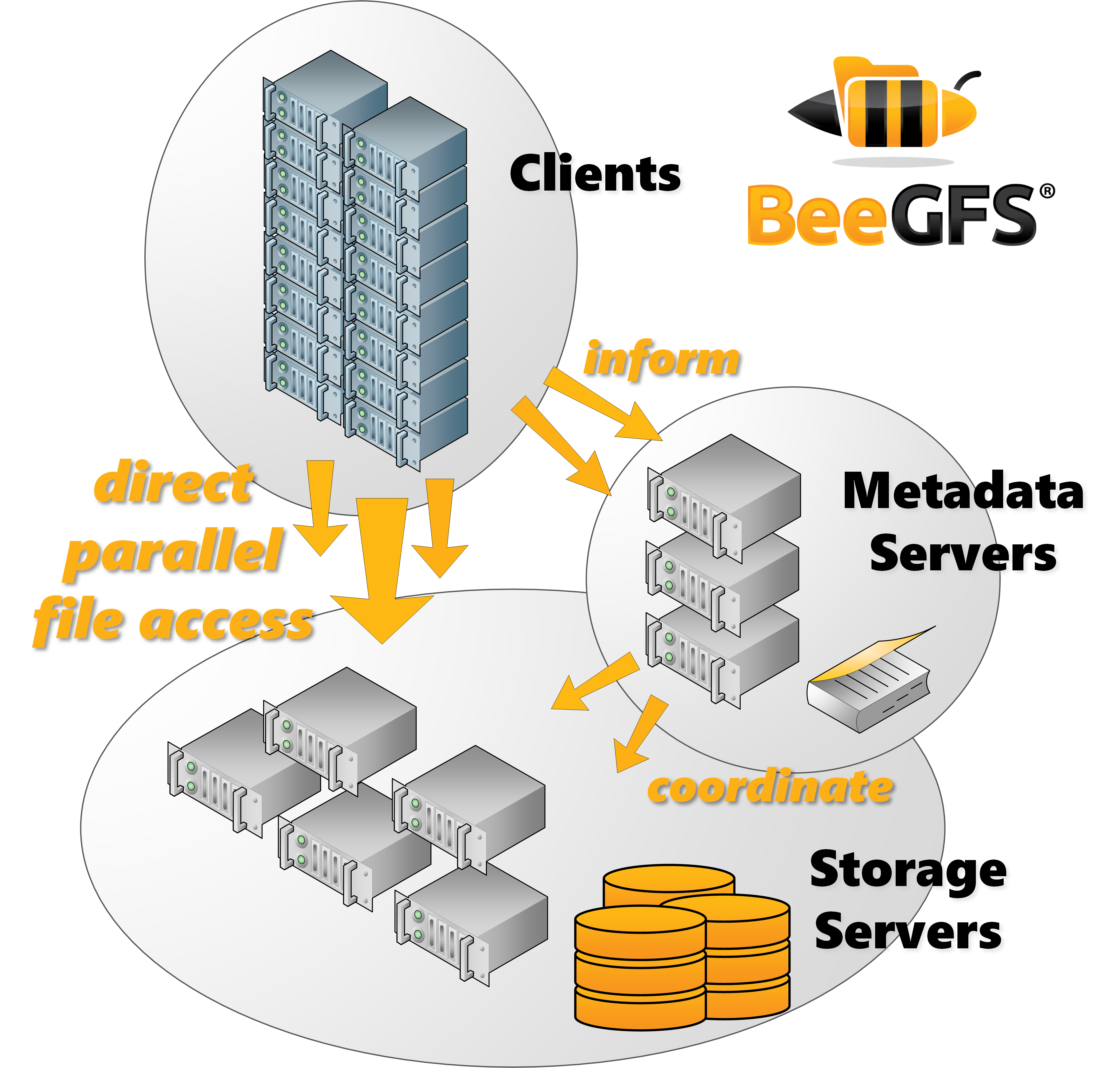 BeeGFS Architecture Overview